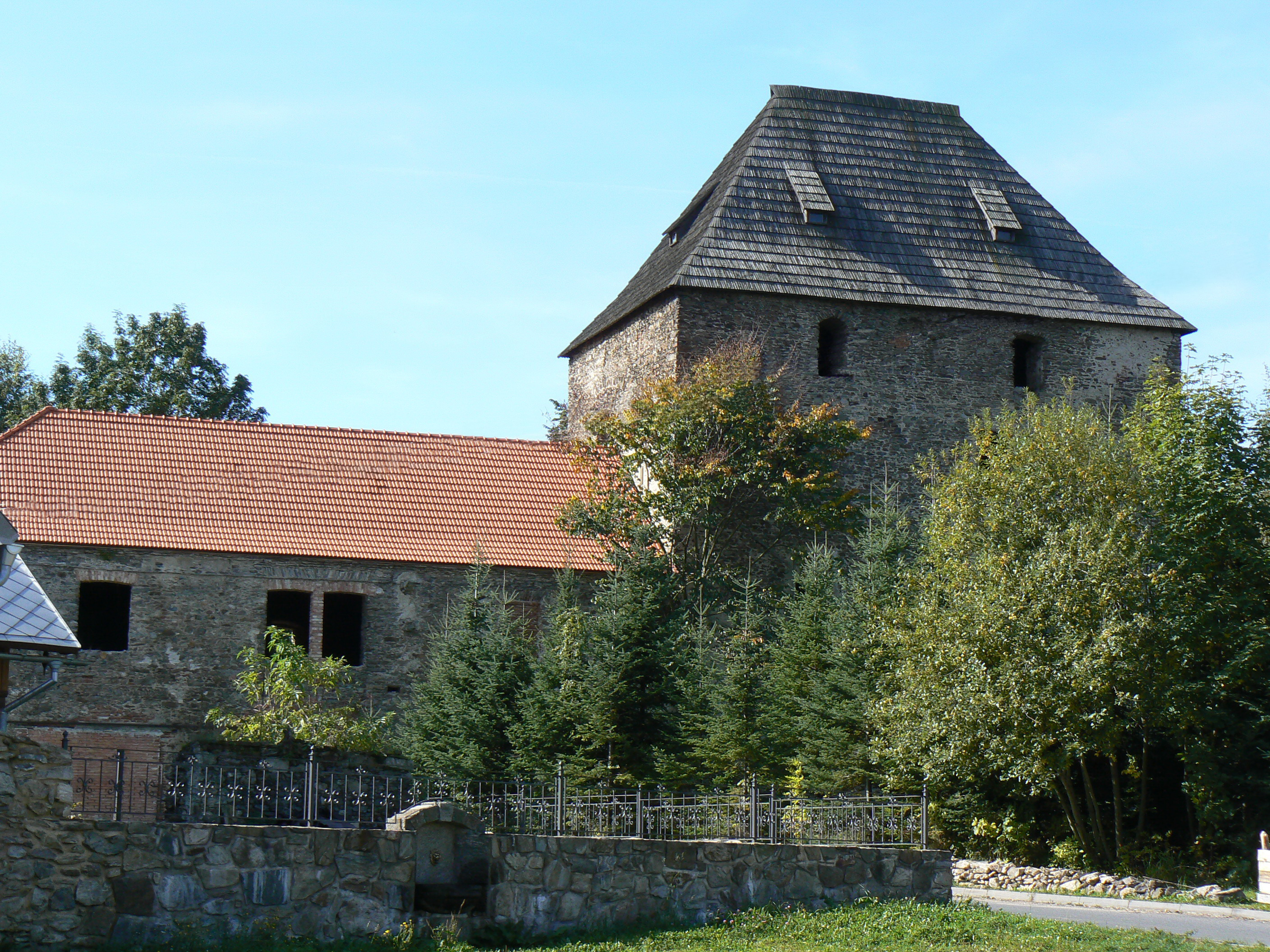 The castle of Čachrov, Czech Republic